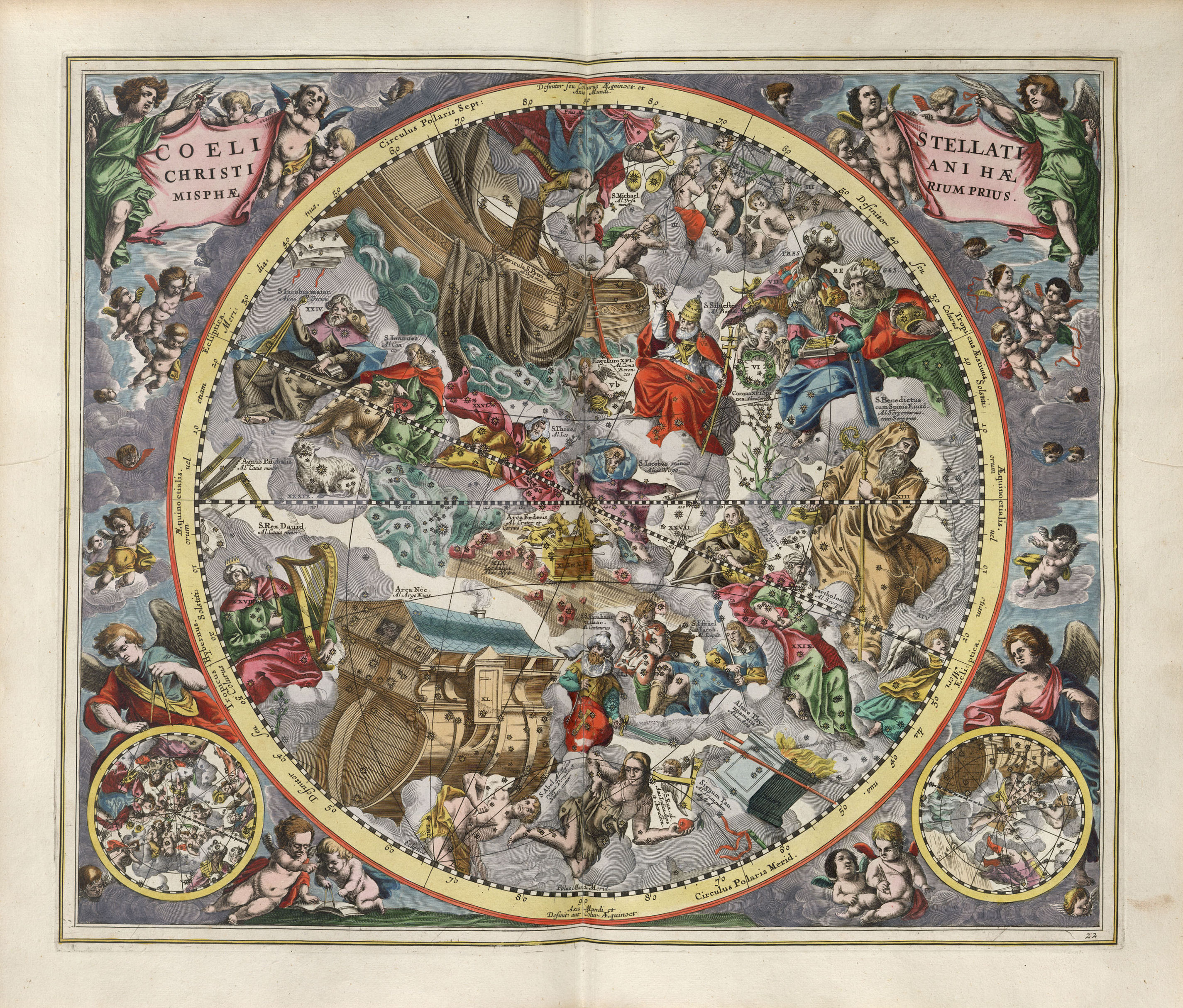 Andreas Cellarius: Harmonia macrocosmica seu atlas universalis et novus, totius universi creati cosmographiam generalem, et novam exhibens. Plate 22. COELI STELLATI CHRISTIANI HÆMISPHÆRIUM PRIUS - First hemisphere with the Christianized firmament.